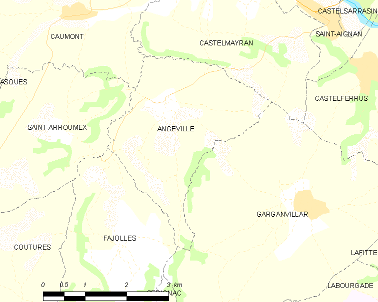 Map of French municipality Angeville